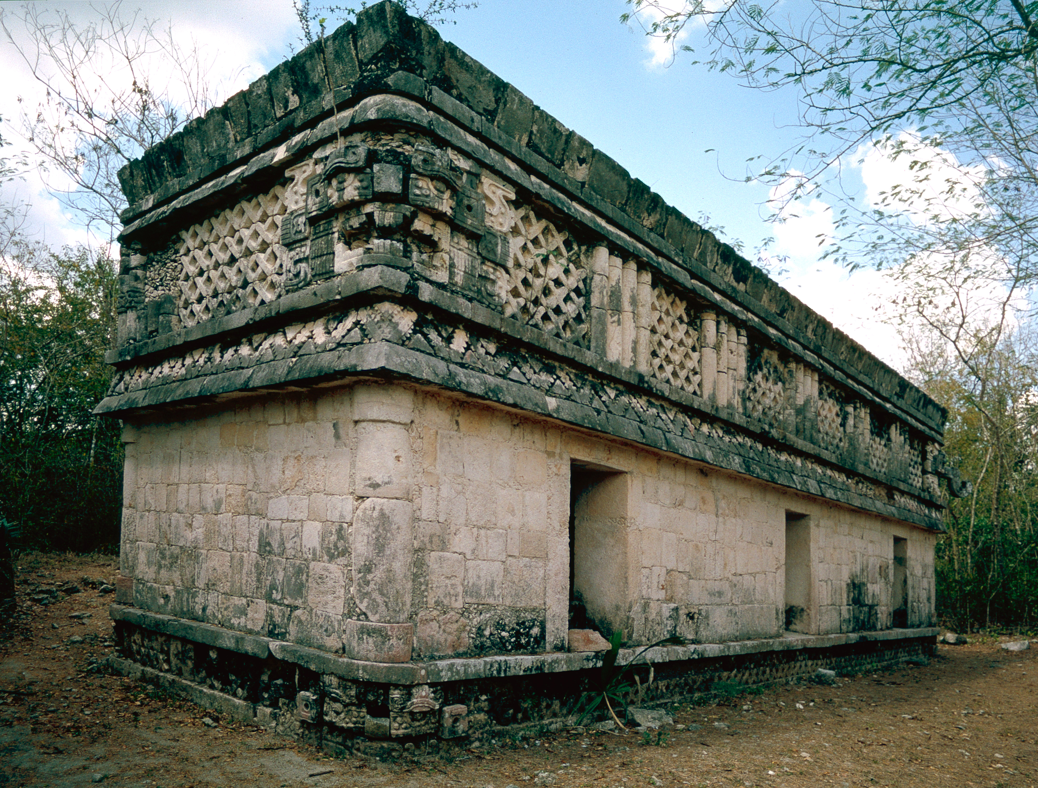 Chichen Itza, Yucatan, Mexico: Templo de los Tres Dinteles